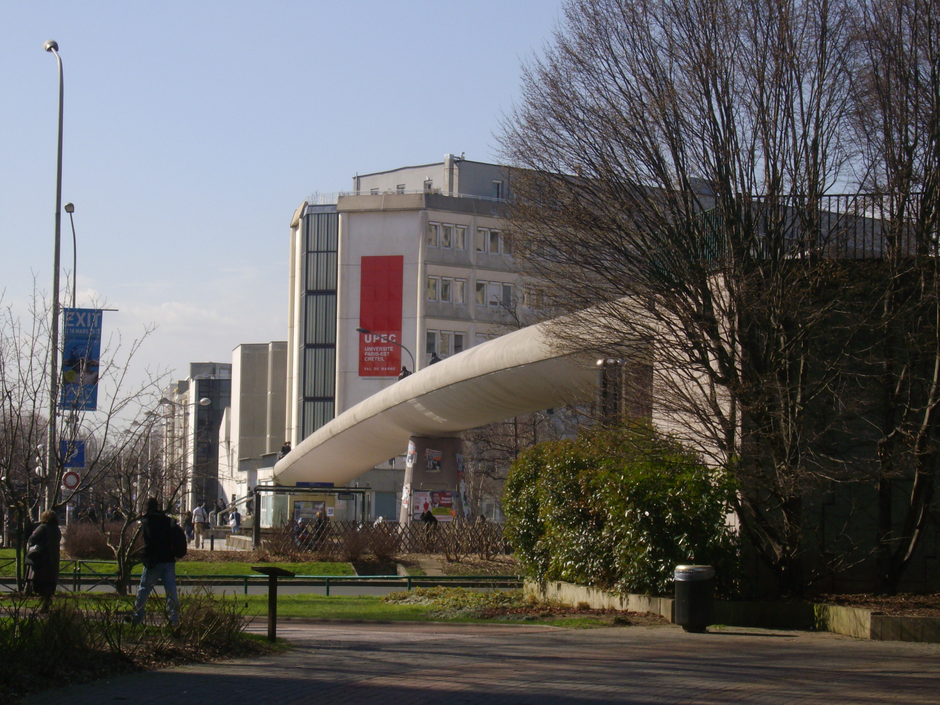 Paris Est Créteil University